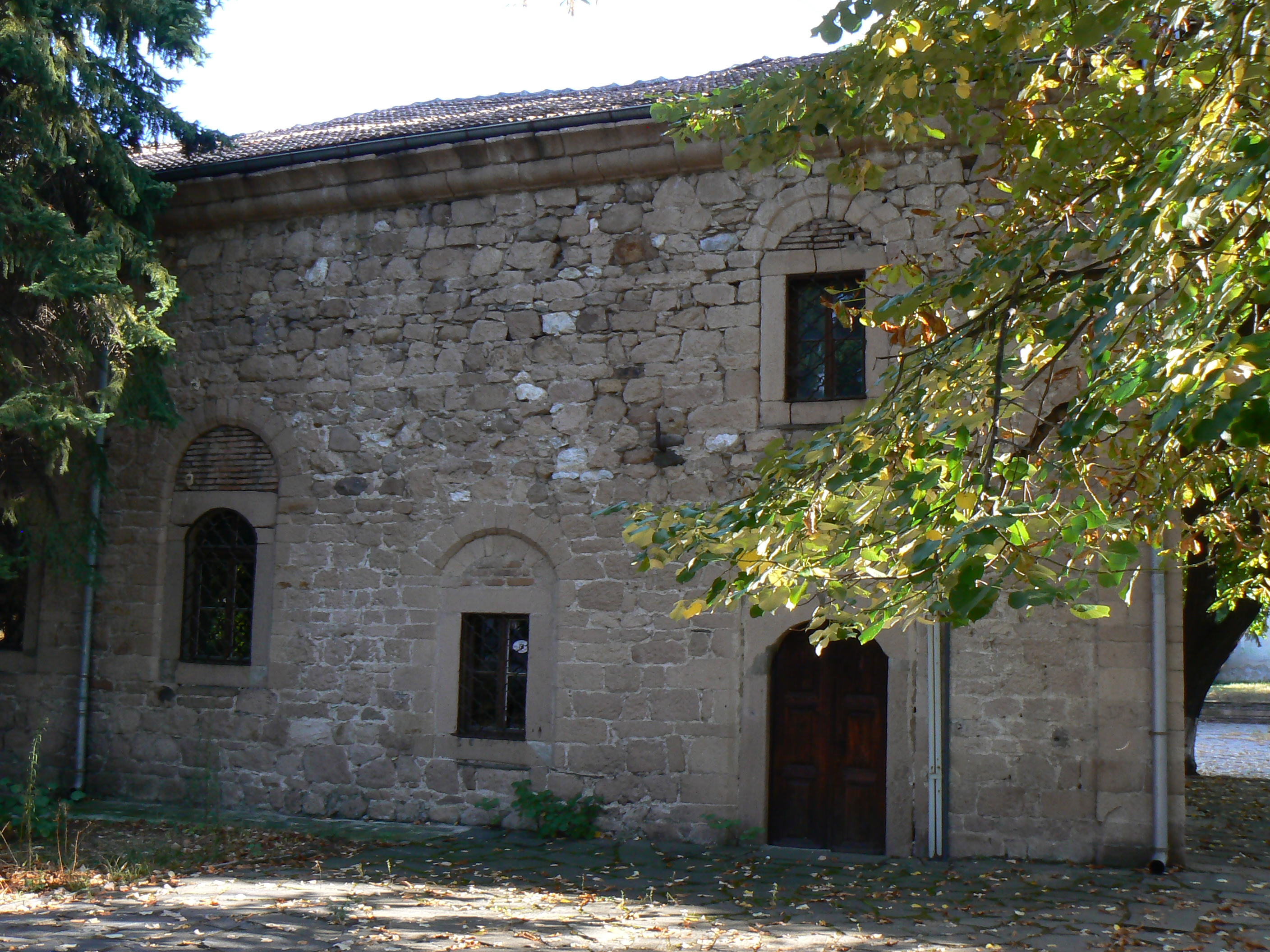 Ossuary church "St. Archangel Michael", Perushtitsa, Bulgaria